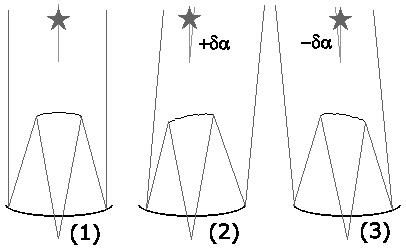 Shows the chopping cycle for a telescope in order to unbias the observations from the thermal background.